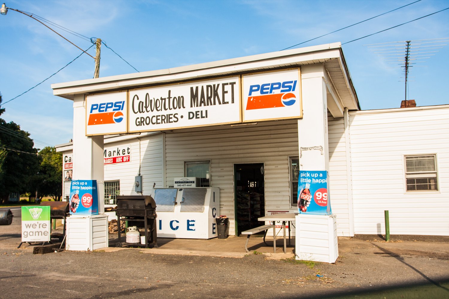 Calverton Market at 4133 Catlett Rd, Calverton, VA